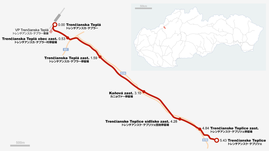 Location map of Trenčianska Elektrická Železnica with Japanese language.